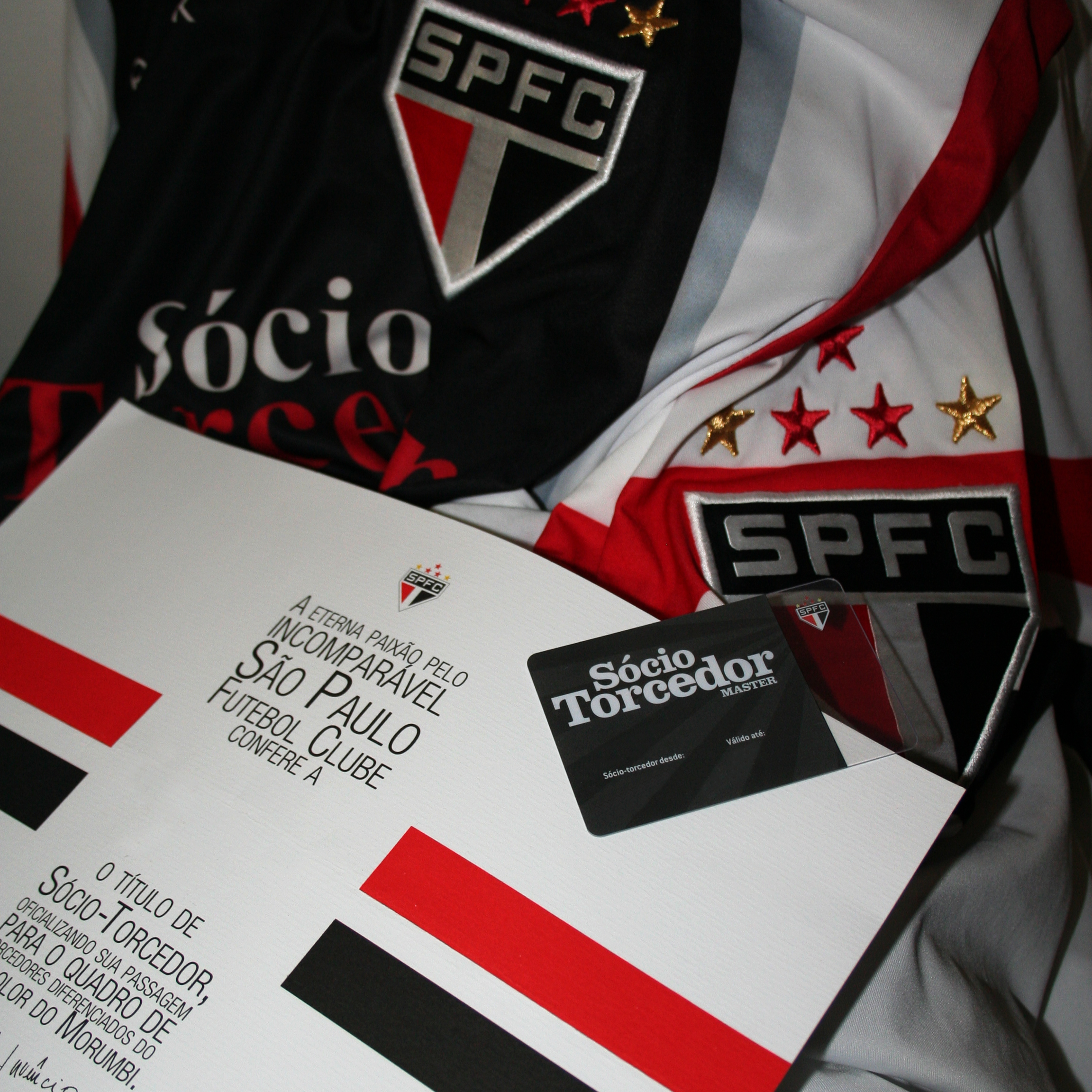 kit of Sócio Torcedor (Partner Supporter) of the category Master.